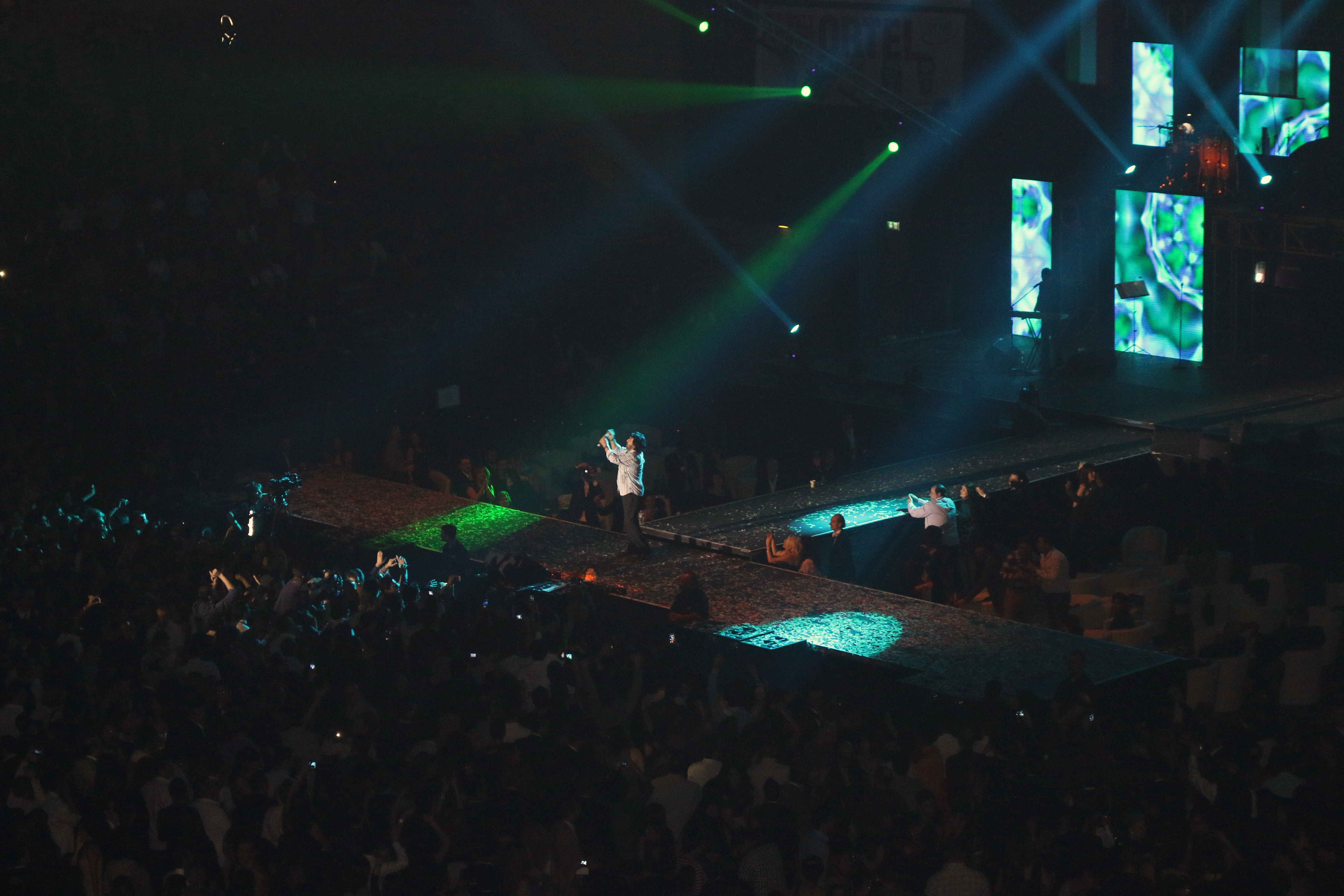 Shahram Shabpareh, Persian pop singer at Oberhausen Arena, Nowruz Concert, 22 March 2014. Photo: Persian Dutch Network